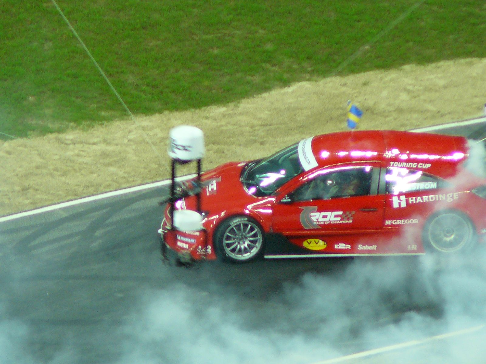 Mattias Ekström doing doughnuts at the 2007 Race of Champions at Wembley Stadium.